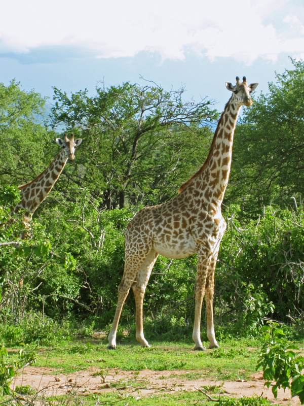 Giraffes in Ruaha National Park, Tanzania, late December 2011